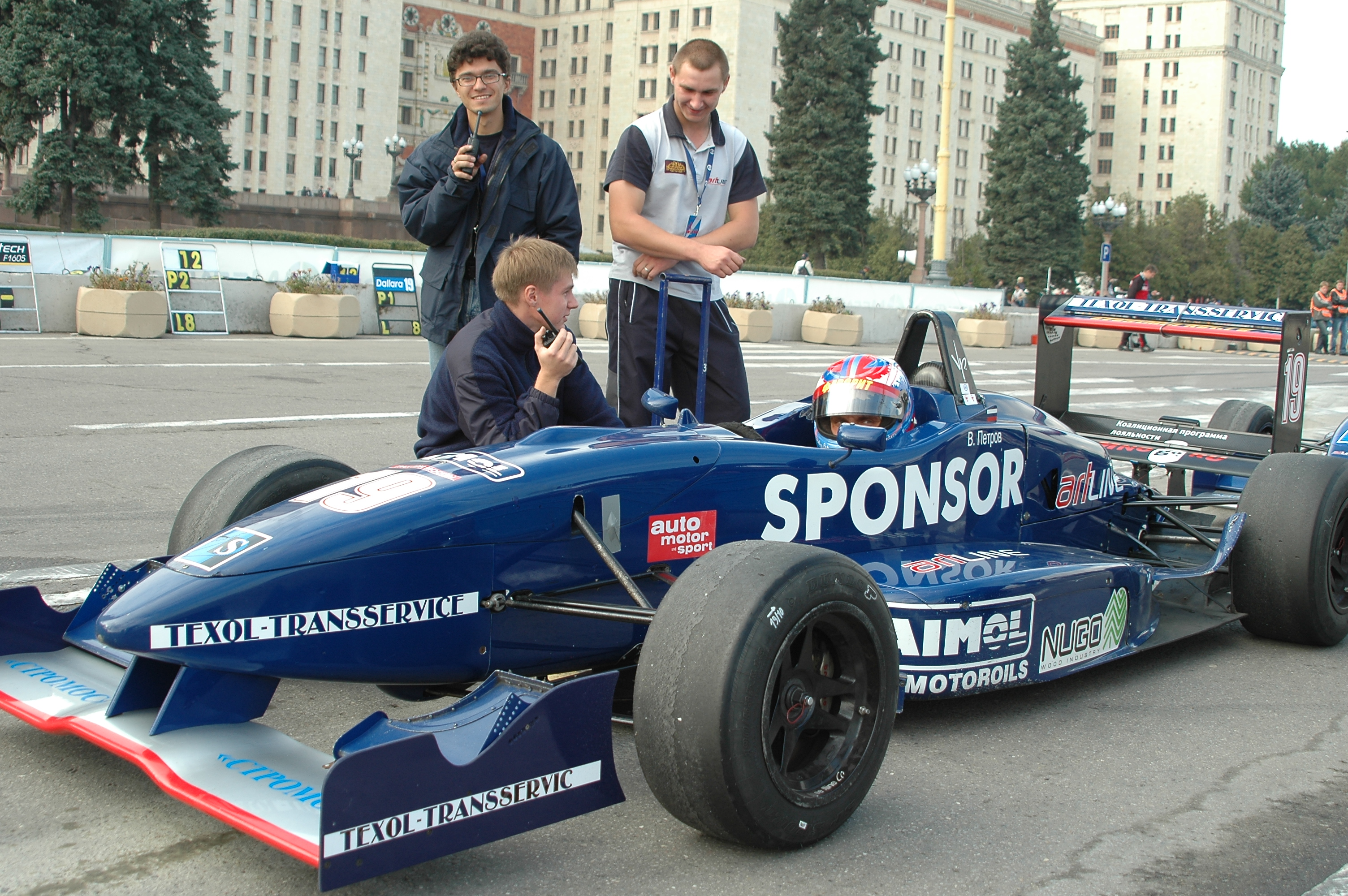 Vitaly Petrov at the wheel of ArtLine team race car Dallara, Moscow, Vorobieby Gory